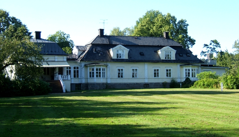 The old Kohlswa mansion in Kolsva, Sweden